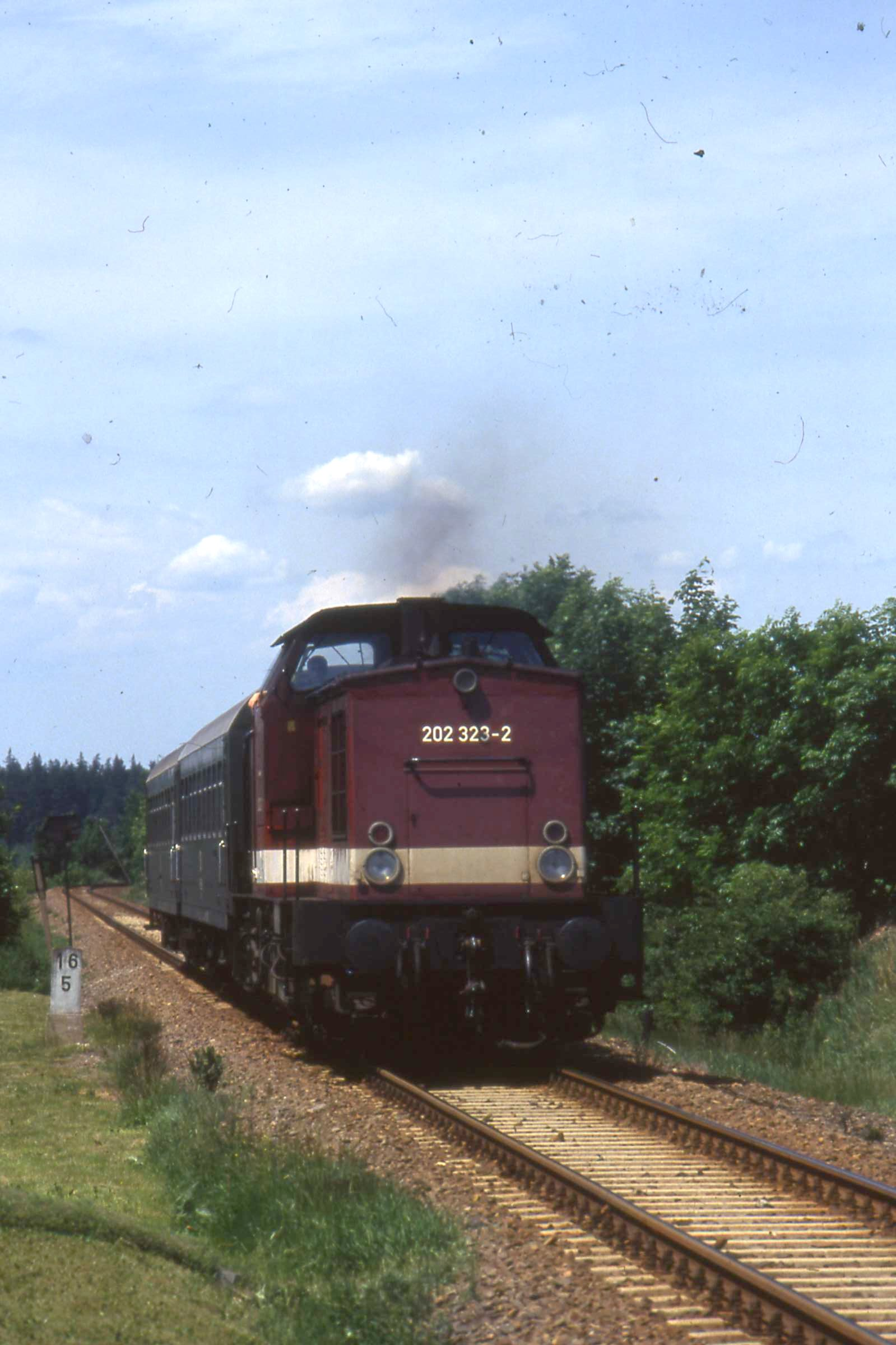 202 323-2 on a two carriage train, 530m above sea level at Rebesgrün near Auerbach Oberer Bahnhof. Deutsche Reichsbahn KBS 444, the pre-war KBS 171n and the DB KBS 539.. In GDR times (and possibly at the time of this photograph) the only passenger trains on this line were infrequent "Personenzüge" between Herlasgrün and Falkenstein. Two railways ran parallel in the vicinity of Auerbach, joining south of that Vogtland town en route to Klingenthal or Adorf (KBS 443) which had a greater density of services. The other, easterly route, closer to Auerbach, arrived from Zwickau at the Lower Station. The Oberer Bahnhof route is now known as VB 5 of the Vogtlandbahn on services between Hof, Bavaria and Adorf, Vogtland via Plauen, whilst the Unterer Bahnhof is served by VB 1 from Zwickau to Klingenthal, and extended into the Czech Repubic at Kraslice (Graslitz). Trains used have been RegioSprinter railcars, and latterly Desiro Classic units. The two carriage train would have crossed over the Jocketa Viaduct before branching off the main Plauen-Zwickau line. A map of the Vogtlandbahn may be found here by clicking on the ACTUELLE STRECKENNETZ link A privatised company based in Bavaria under the group REGENTALBAHN, Arriva now owns it 100 per cent.